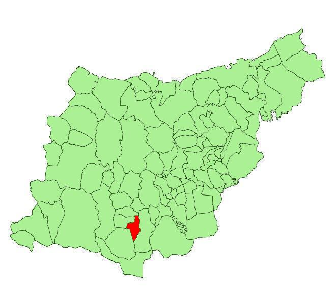 Segura municipality in the province of Guipuzcoa